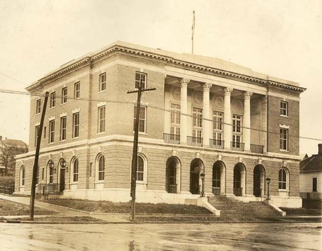 U.S. Post Office and Courthouse, McAlester, Oklahoma (1915) Completed in 1914. Supervising Architect: Oscar Wenderoth Still in use by the U.S. District Court for the Eastern District of Oklahoma. Renamed the Carl Albert Federal Building in 1984.